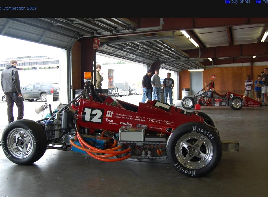 The parallel hybrid car for Formula Hybrid team - Illinois Tech, Chicago